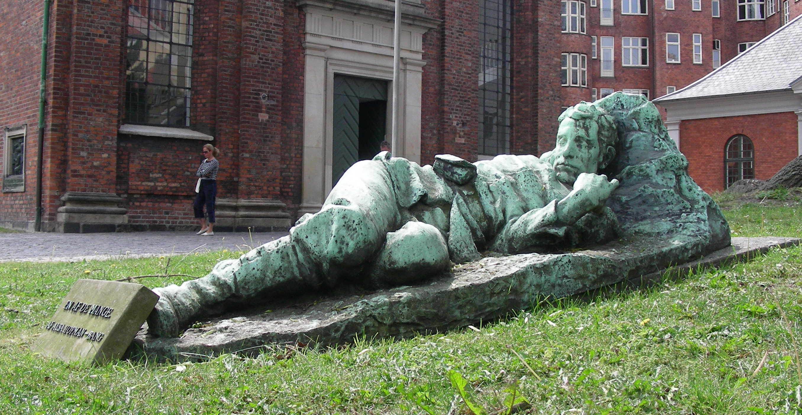 Garnisons Kirke (Garrison Church), Copenhagen, Denmark. Memorial for the unknown soldier.